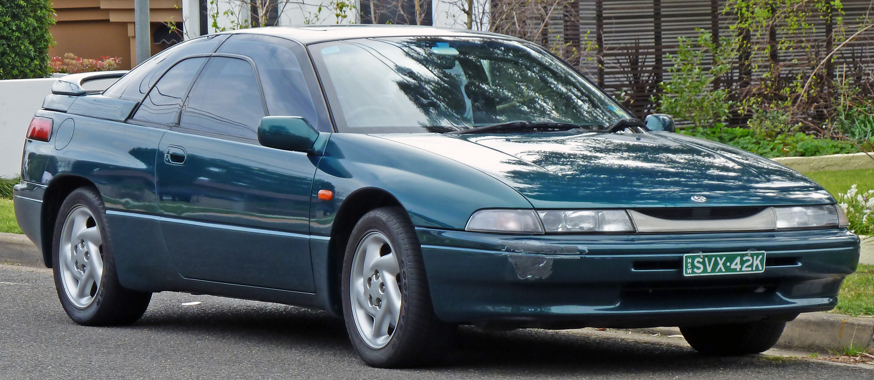 1997 Subaru SVX coupe. Photographed in Taren Point, New South Wales, Australia.